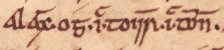 An excerpt from folio 78v of Oxford Bodleian Library MS Rawlinson B 489 (the Annals of Ulster). The excerpt concerns Alasdair Óg Mac Domhnaill (died 1368), son of Toirdhealbhach Mac Domhnaill (died 1366).